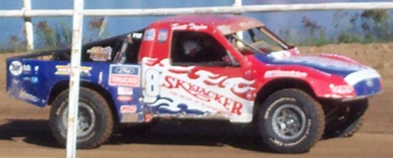 Scott Taylor's 2WD trophy truck before winning the 2008 Borg Warner world championship race at Crandon International Off-Road Raceway.